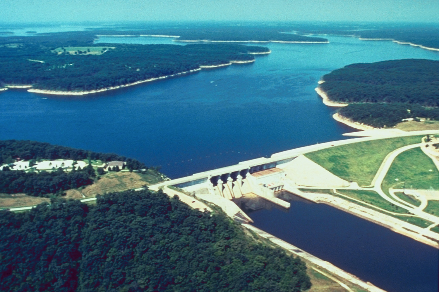 Mark Twain Lake and Dam on the Salt River in Ralls County, Missouri, USA.